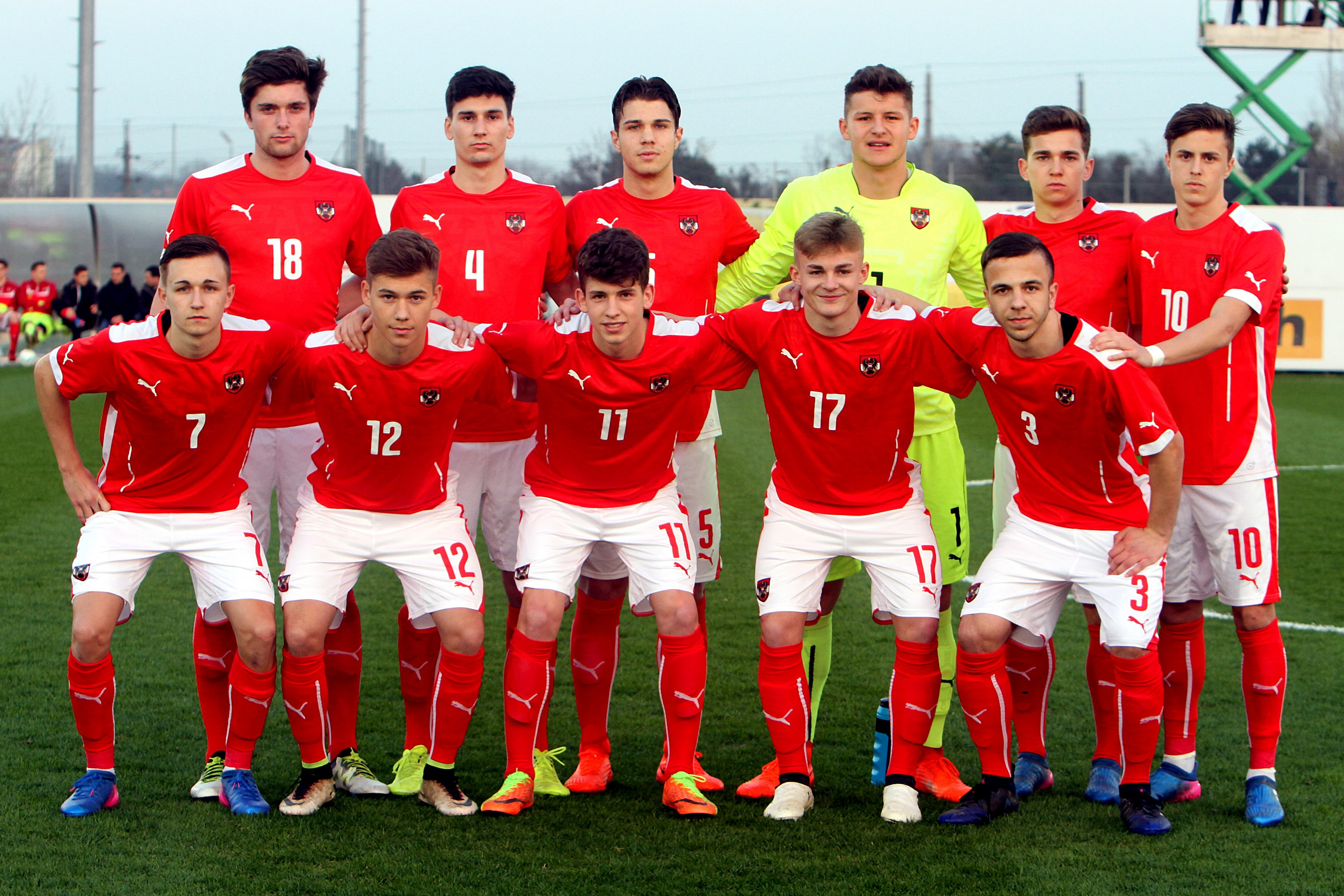 Friendly match Austria national under-18 football team (red shirts) vs. Netherlands national under-18 football team (blue shirts) 1–1 (1–0) on 2017-03-23 in Eggendorf – The photo shows the Austria national under-18 football team. From left to right: 1st row: Philipp Sittsam (SK Sturm Graz), Lukas Malicsek (FC Admira Wacker Mödling), Dominik Fitz (FK Austria Wien), Philipp Sturm (FC Red Bull Salzburg), Alexander Burgstaller (FC Red Bull Salzburg); 2nd row: Patrick Obermüller (SK Rapid Wien), Alexandar Borkovic (FK Austria Wien), Luca Meisl (FC Red Bull Salzburg), Benjamin Ozegovic (SC Rheindorf Altach), Valentino Müller (SC Rheindorf Altach), Christoph Baumgartner (AKA St. Pölten).